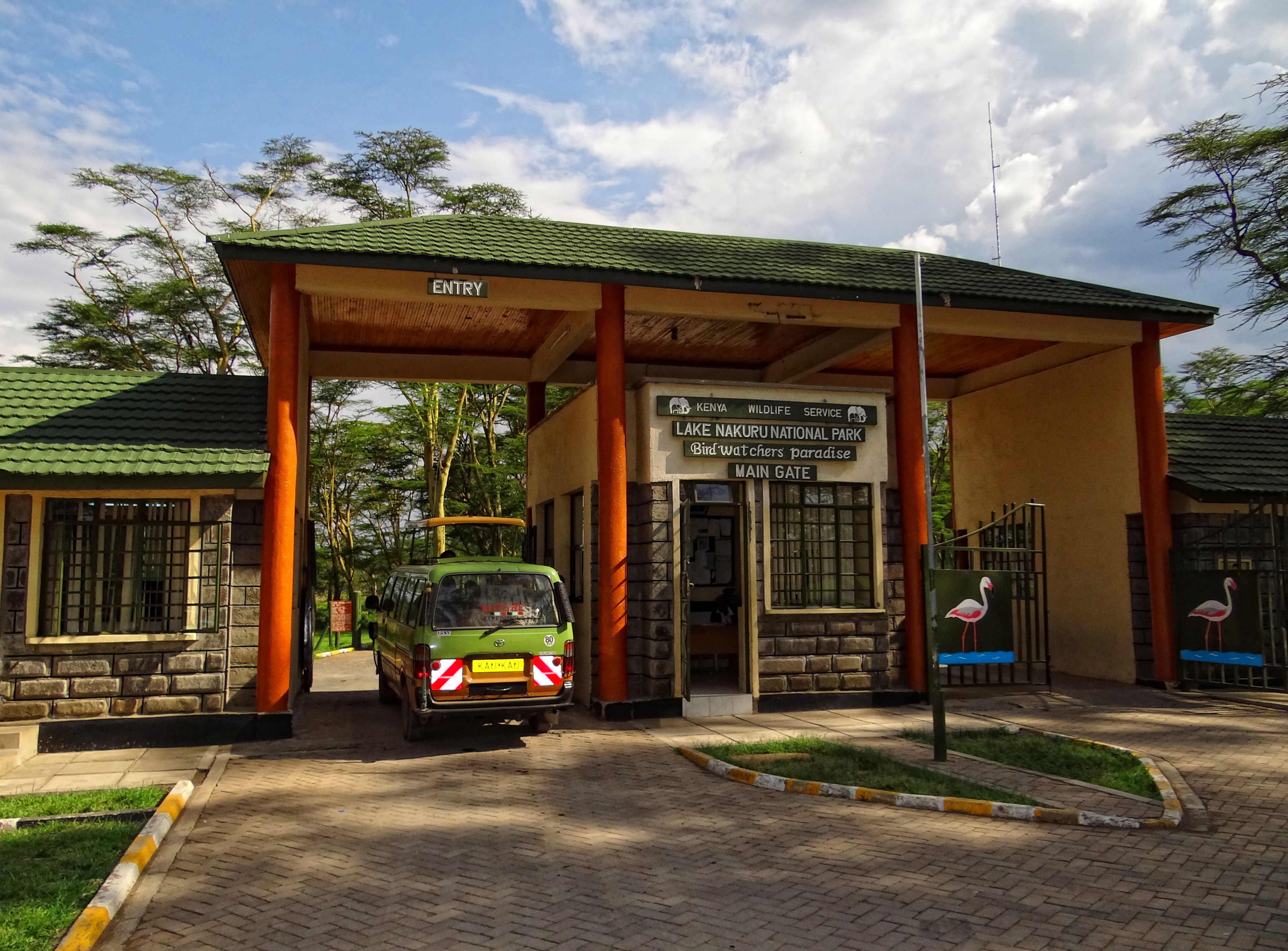 The entrance to Lake Nakuru National Park, just a couple of kilometres from downtown Nakuru.